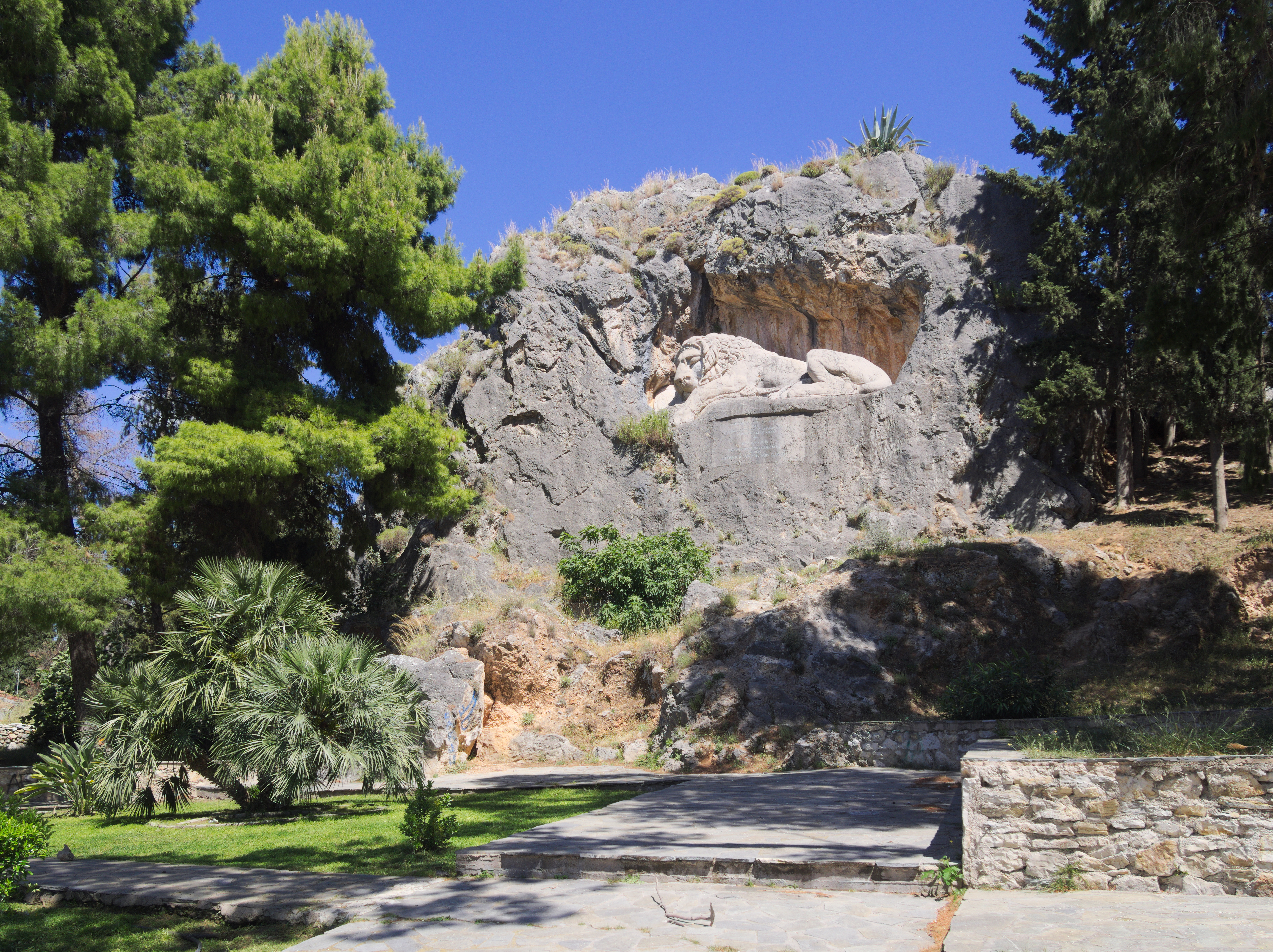 The lion of Bavarians carved in 1840-1841 as a memorial of the Bavarian soldiers of king Otto escord who died by typhoid in 1833. It work of Christian Siegel (1808-1883).